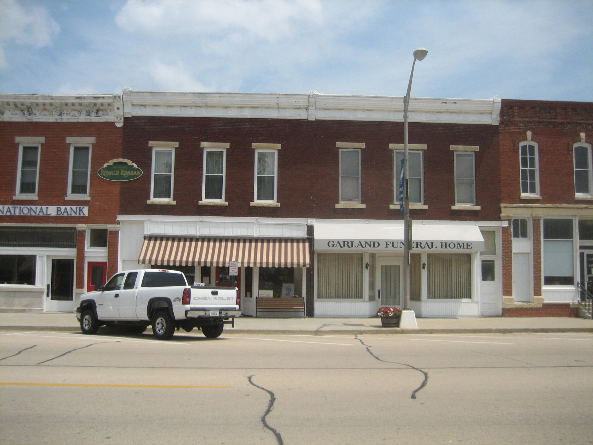 Main Street Historic District, Tampico, Illinois. U.S. National Register of Historic Places. 113 S. Main St. (left) and 115 S. Main St. (right-Garland Funeral Home).